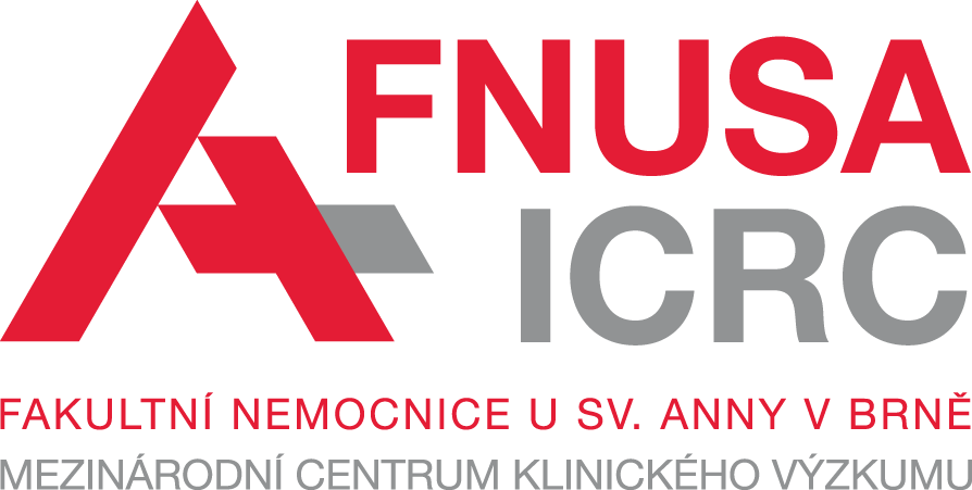 Logo Mezinárodního centra klinického výzkumu